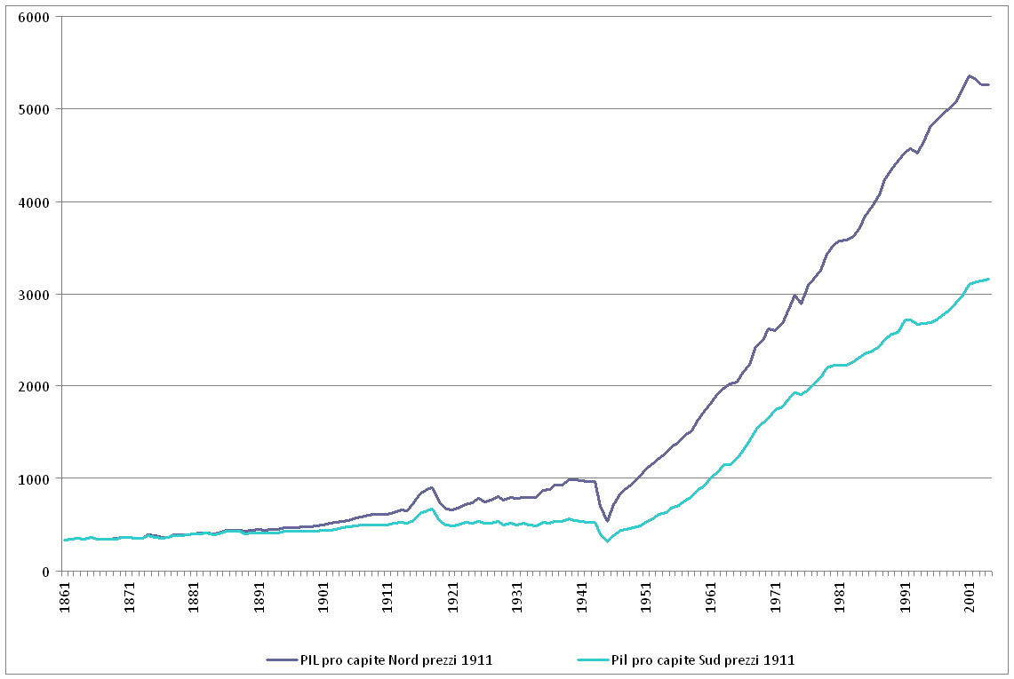 Northern vs. Southern Italy GDP per capita trend, according to Daniele-Malanima (2007)